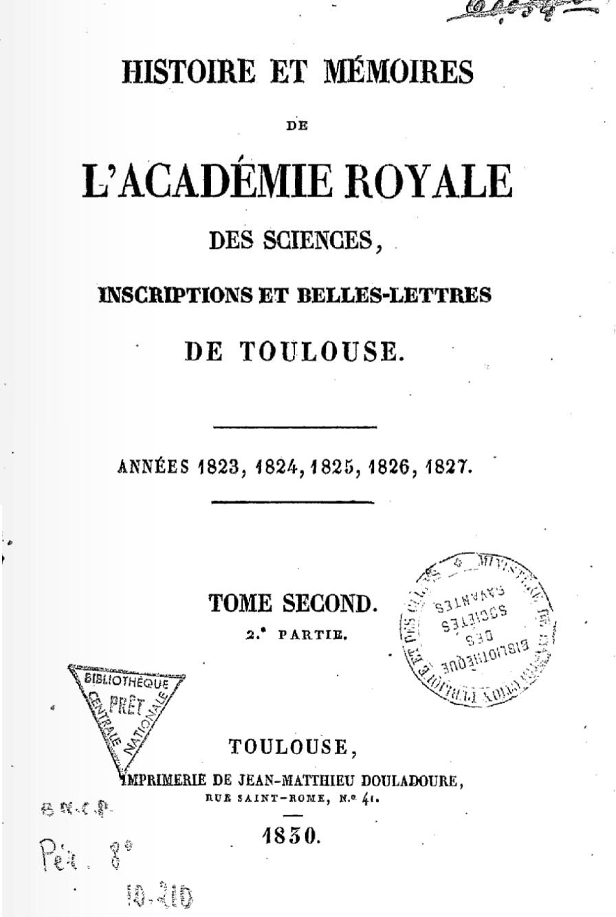 Académie des sciences, inscriptions et belles-lettres de Toulouse : works, 1823-1827, published in 1830, title page.